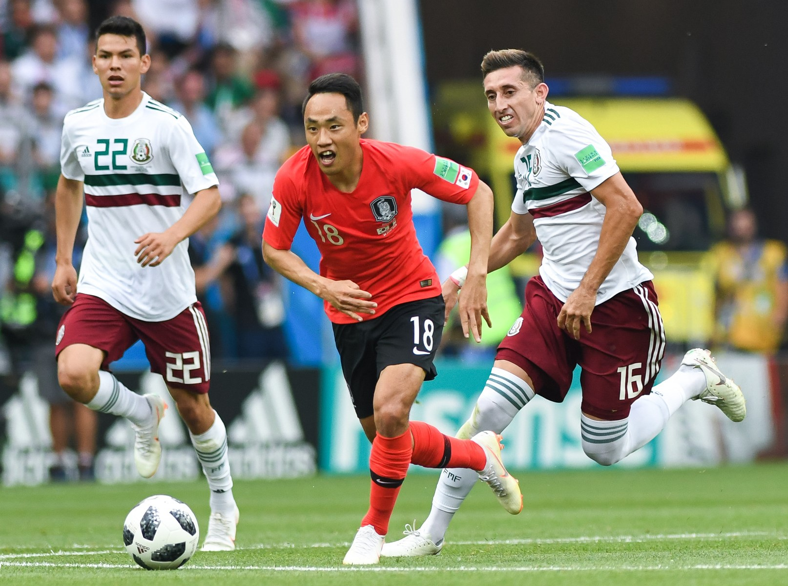 Héctor Herrera